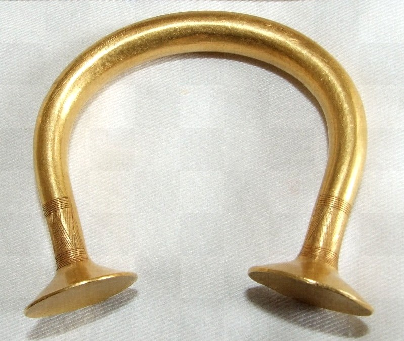 A Late Bronze Age gold bracelet from Castlederg area, County Tyrone. c. 950-c. 800 BC. Found in April 2008 by the finder while clearing stones from a newly ploughed field.